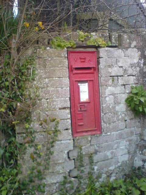 Trekenning Post box (TR8 26) Victorian post box